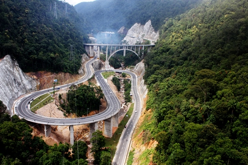 Kelok 9